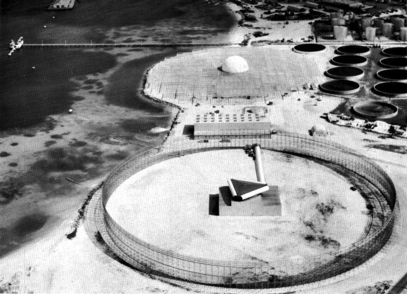 The Zeus Acquisition Radar (ZAR) for the Nike Zeus anti-ballistic missile program on Kwajalein, Marshall Islands. The transmitter is the triangle in the foreground, the receiver is in the background. The transmitter was built in a triangle form to allow the rapid scanning of the sky. In a typical single-reflector radar, the reflector would have to rotate through a complete circle before it re-visited a particular target. If you need rapid re-scanning, the rotation rate has to be increased. The ZAR solved this by using three reflectors and switching the transmitter to the one closest to the desired target. By continually switching between the faces, the scanning rate was tripled without requiring the antenna to rotate more rapidly. Designed to track warheads at hundreds of miles, the ZAR was extremely powerful, and its broadcasts were dangerous to anyone near the antenna. The large metal fence surrounding the transmitter is opaque to microwaves, and protects anyone walking around the site outside the fence. To access the radar while it was running, staff entered through the metal tunnel. The receiver antenna is located under the radome and is thus not visible in this image. It consisted of a stack of foam blocks with metal strips inside forming a Luneberg lens, nearly filling the entire radome. The entire assembly rotated in synchronicity with the transmitter. The hashed area surrounding the receiver is a large field of metal wires suspended off the ground on poles. This formed a reflector that make a perfect ground plane, improving the accuracy of vertical angle measurements. This technique was first used by British anti-aircraft radars early in WWII. The rectangular building between the two parts of the ZAR is a power plant that powers the system. The circular objects on the right are part of the island's water processing system.